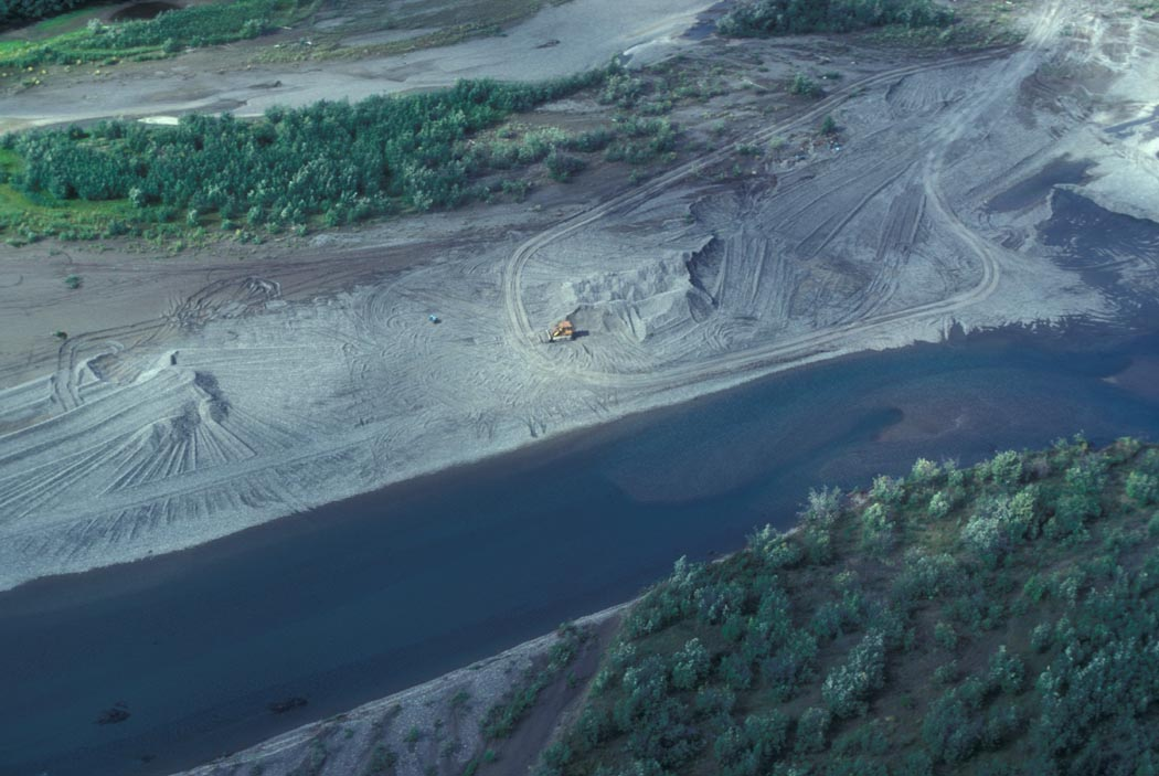 Gravel Extraction at Noatak Village - Aerial View. A bulldozer operating on a river beach. Noatak National Preserve. Source SL-02884